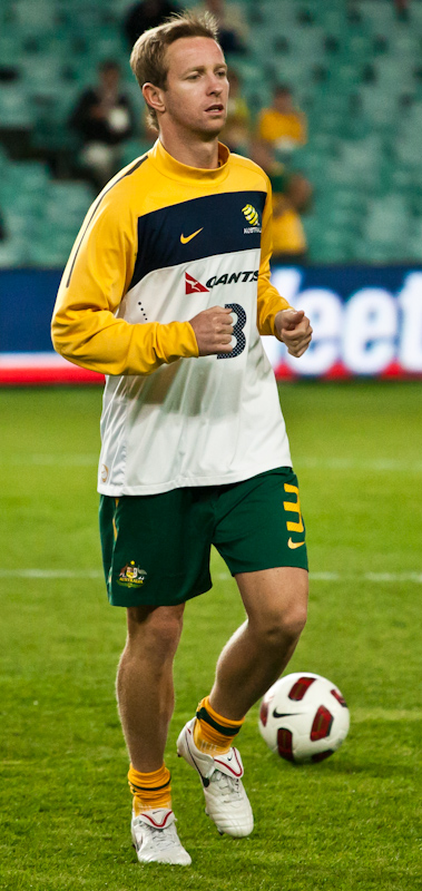 David Carney representing the Australian national football team against Paraguay at the Sydney Football Stadium.